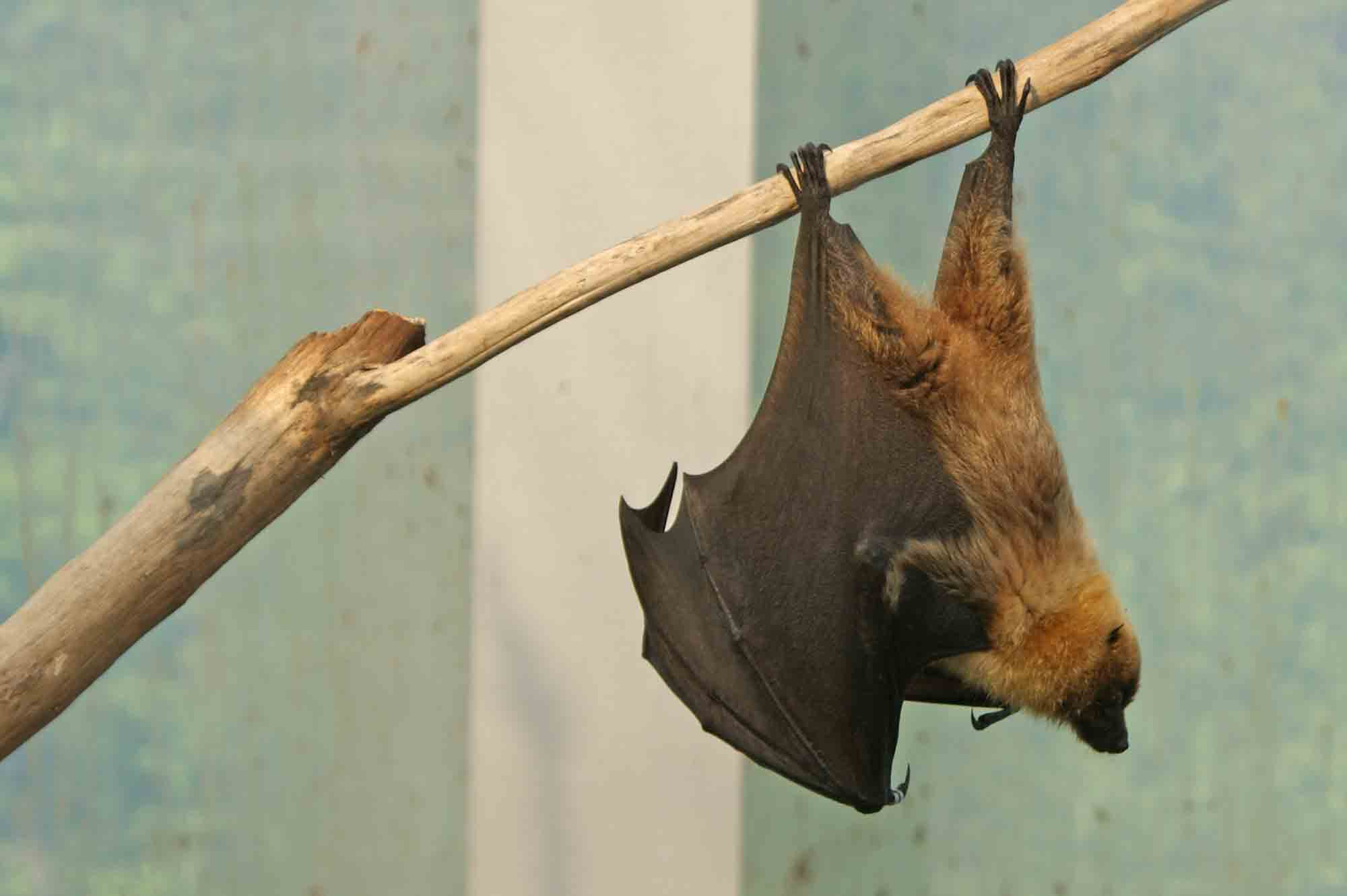 Rodrigues flying fox in the Masoala Hall in Zurich Zoo, Switzerland